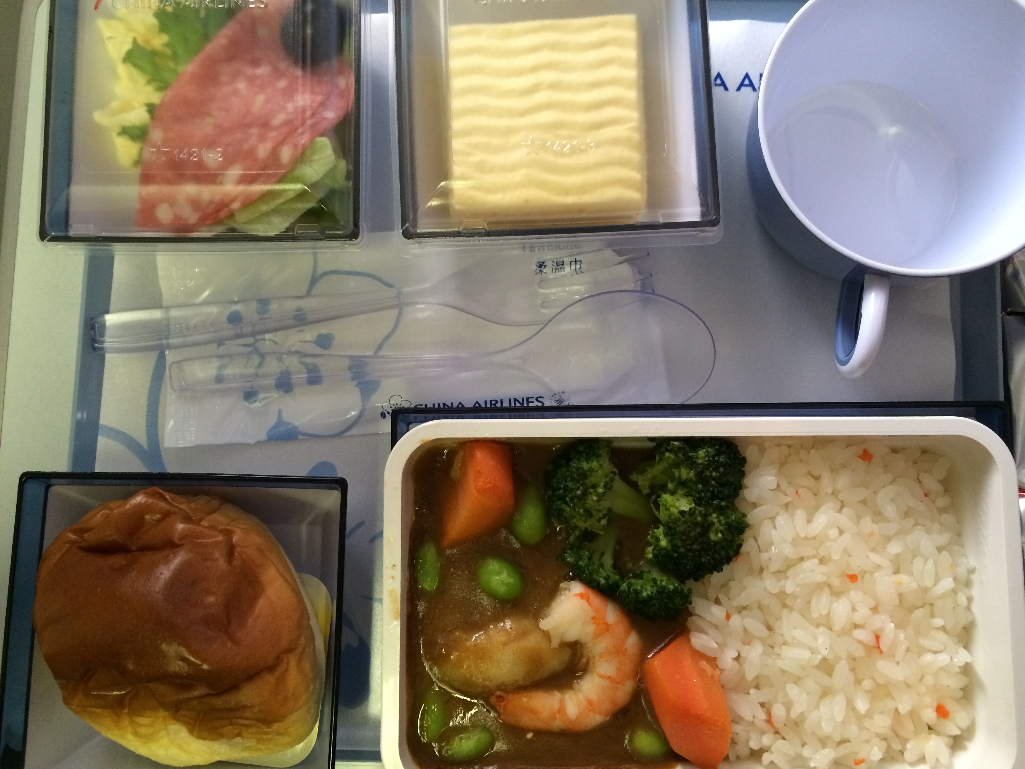 China Airlines Economy Class Meal